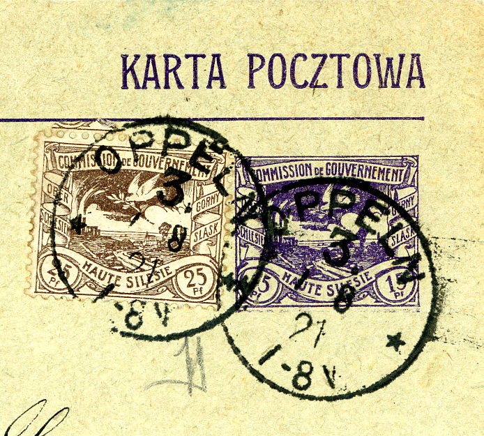 Stamp of Upper Silesia, 25 Pfg on a15 Pfennig Postal card, cancelled at OPPELN 3, sent to Berlin 5 August 1921.